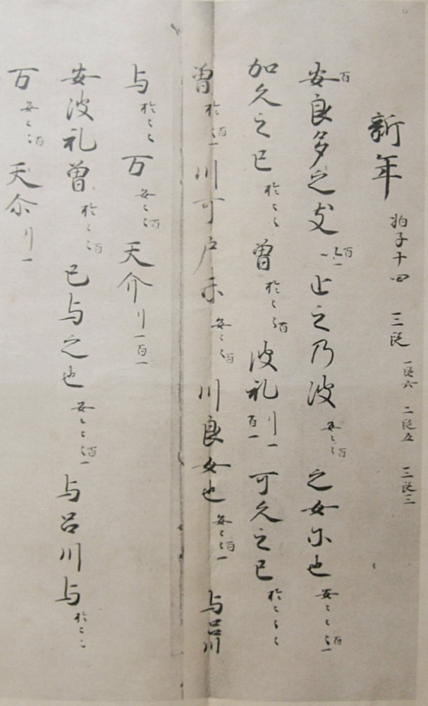 Saibara Music Sheet,Heian period, 12th century One sheet. 26.5cm x 15.9cm. Saga Saga Nabeshima Hōkōkai